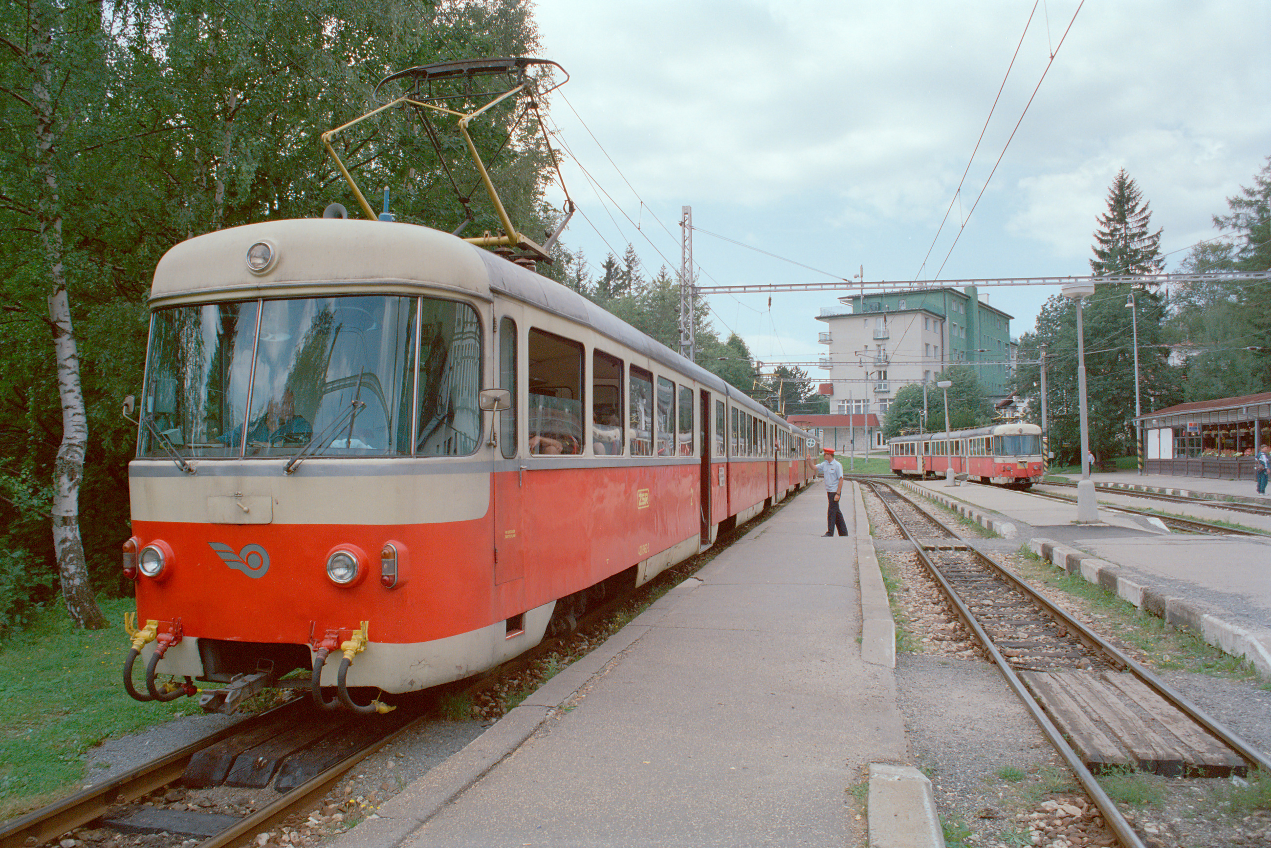 the trainstation in Starý Smokovec (narrow gauge electrical railway in the High Tatra mountains) own picture, taken in summer 2000